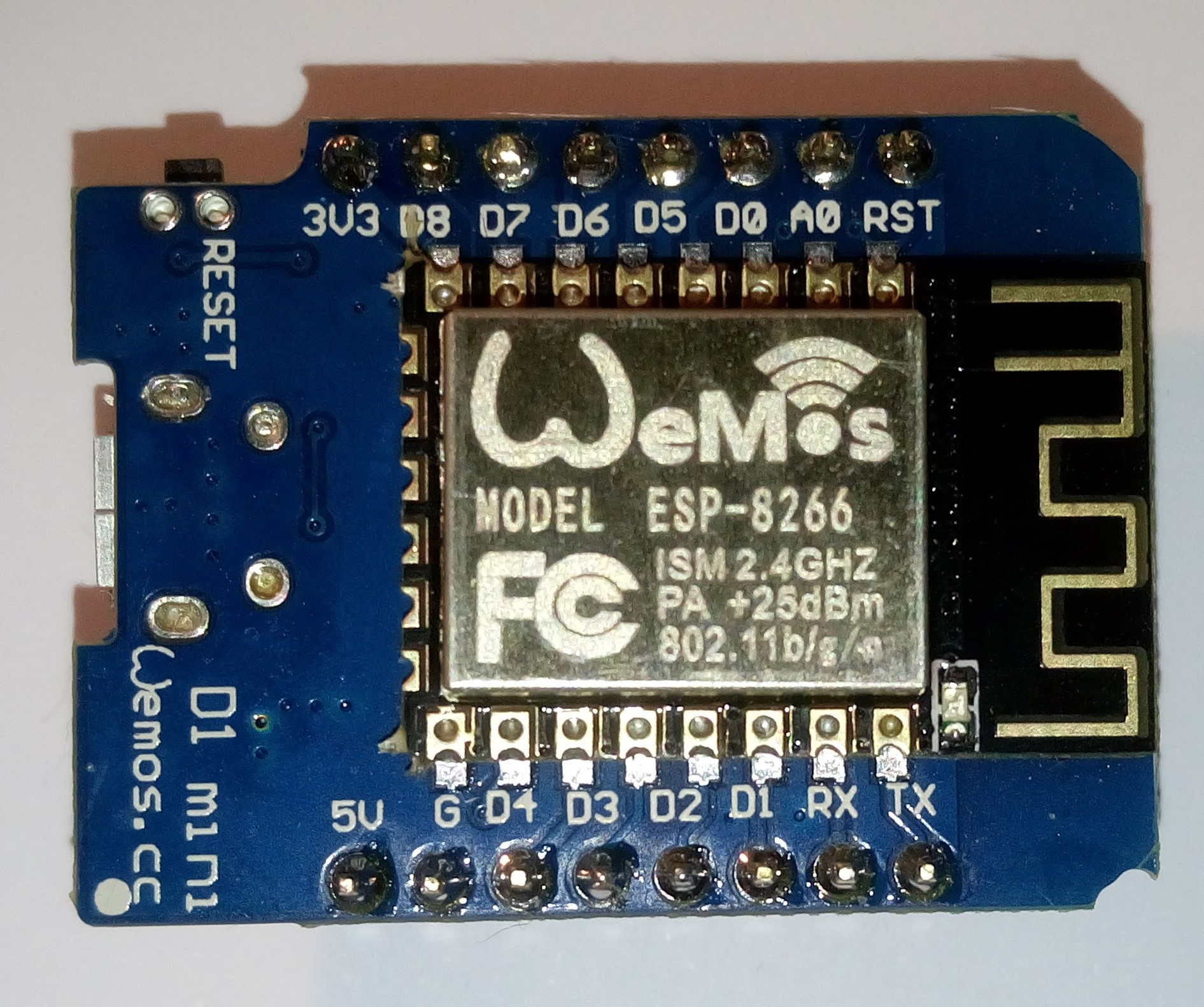 WeMos D1 Mini front